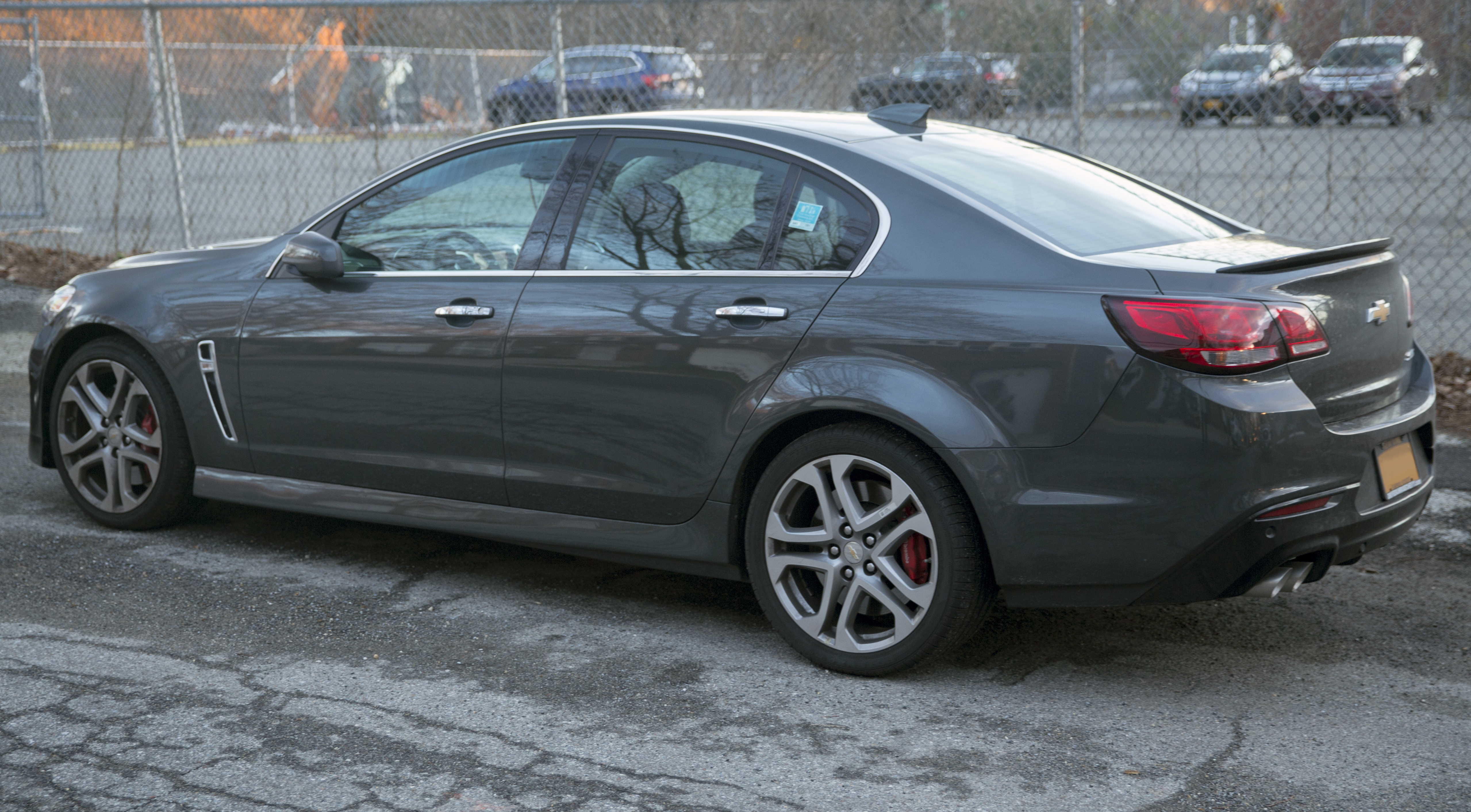 A 2017 Chevrolet SS in Nightfall Gray Metallic. Last model year, and a model-year-specific shade.